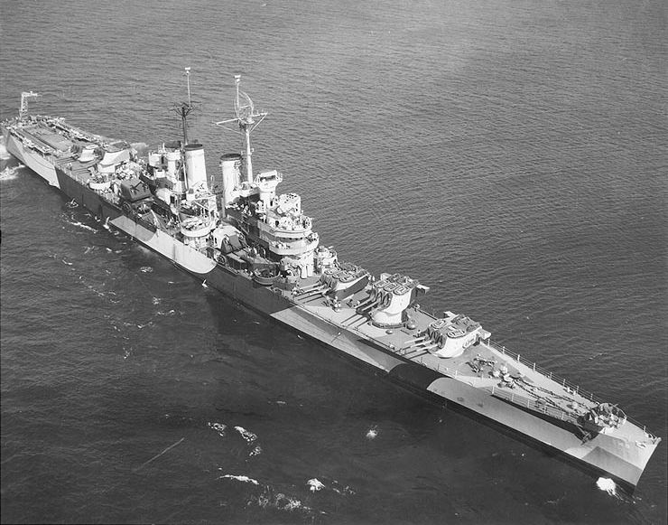 The U.S. Navy light cruiser USS St. Louis (CL-49) off San Pedro, California (USA), on 5 October 1944. Her camouflage is Measure 32, Design 2c.